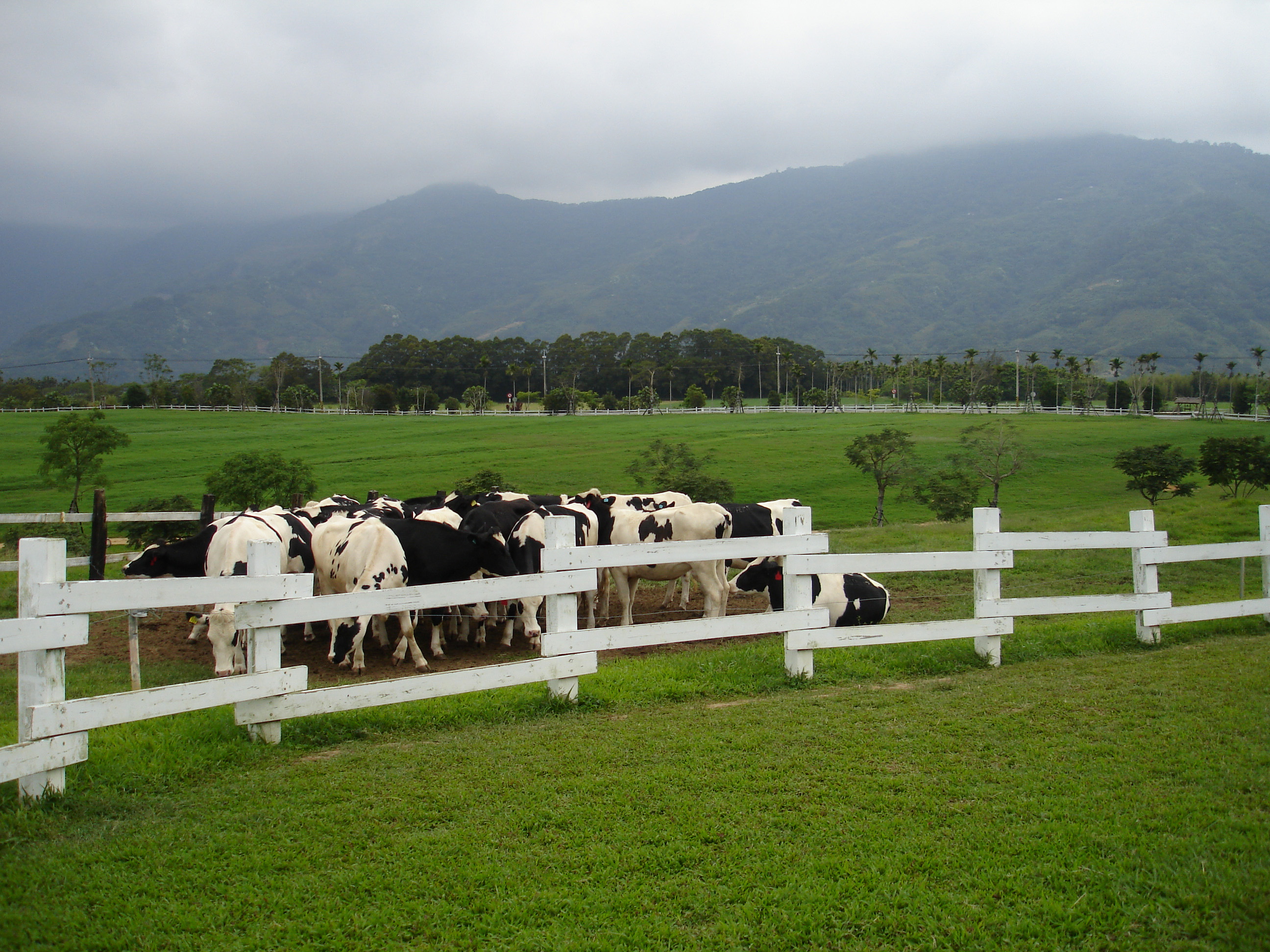 Chu Lu Ranch